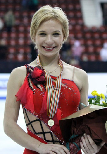 Alena LEONOVA (RUS) during the medals ceremony at the 2009 World Junior Figure Skating Championships.